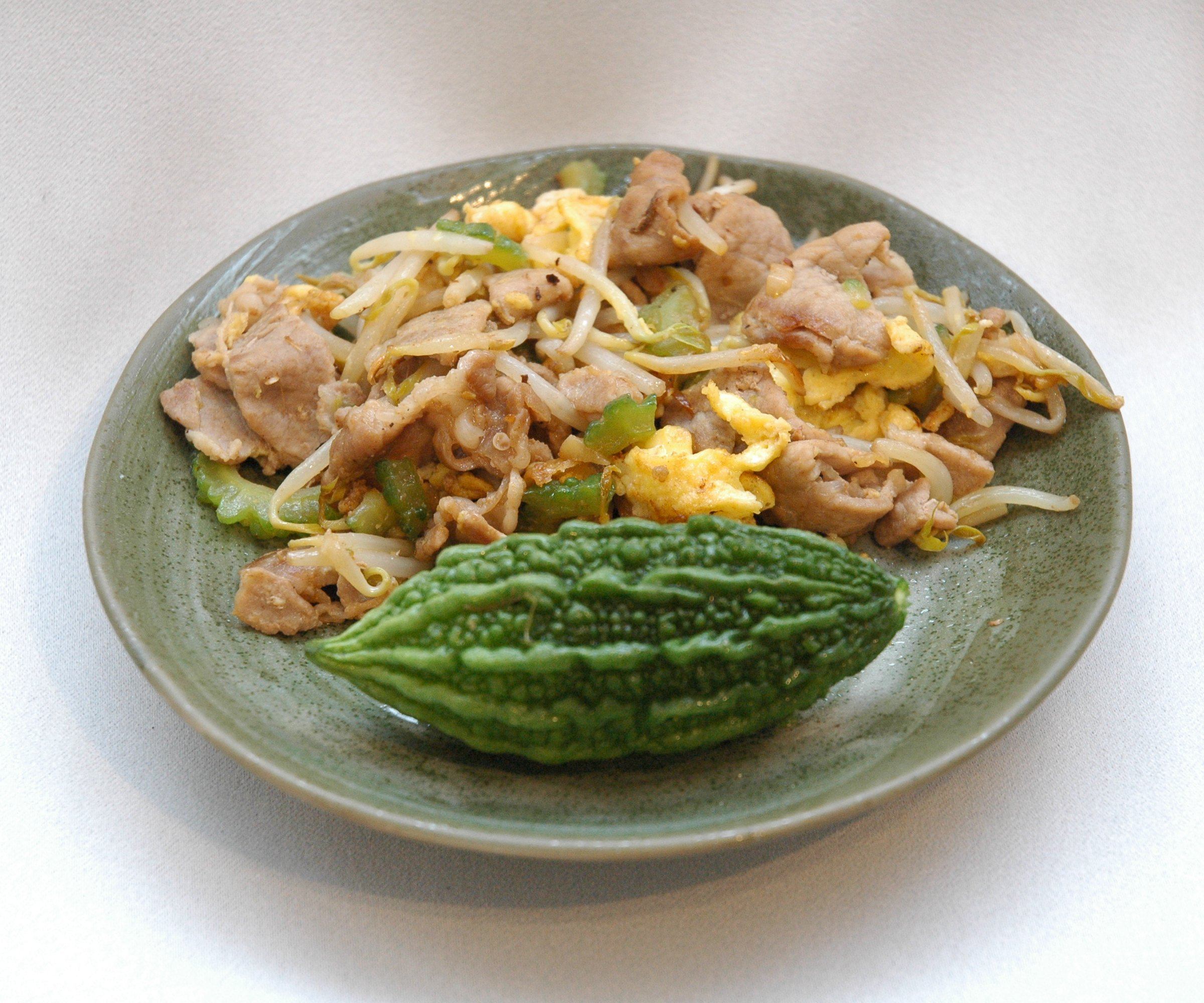 A small raw bitter gourd fruit (front) and a scoop of Okinawan-style goya champuru bitter gourd stirfry.